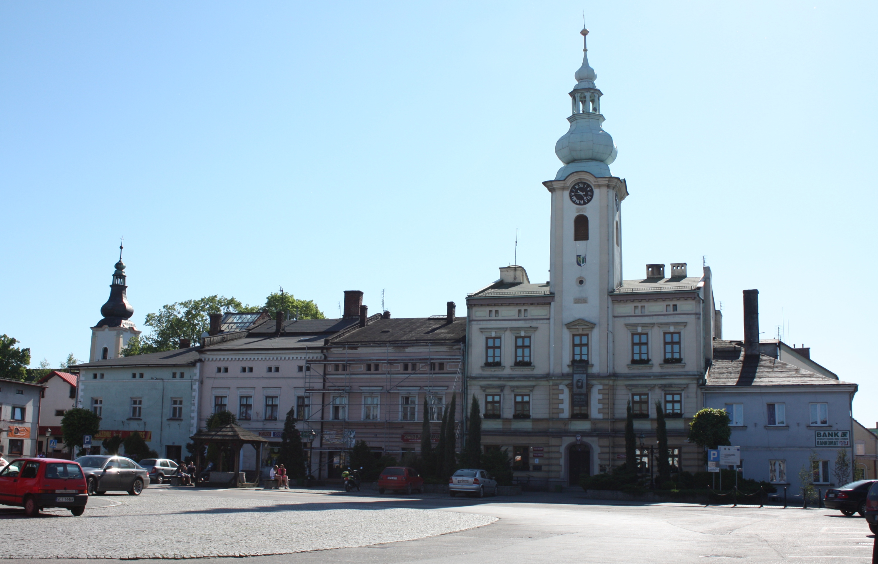 Strumień (Silesia Voivodeship), Old Market square with town hall